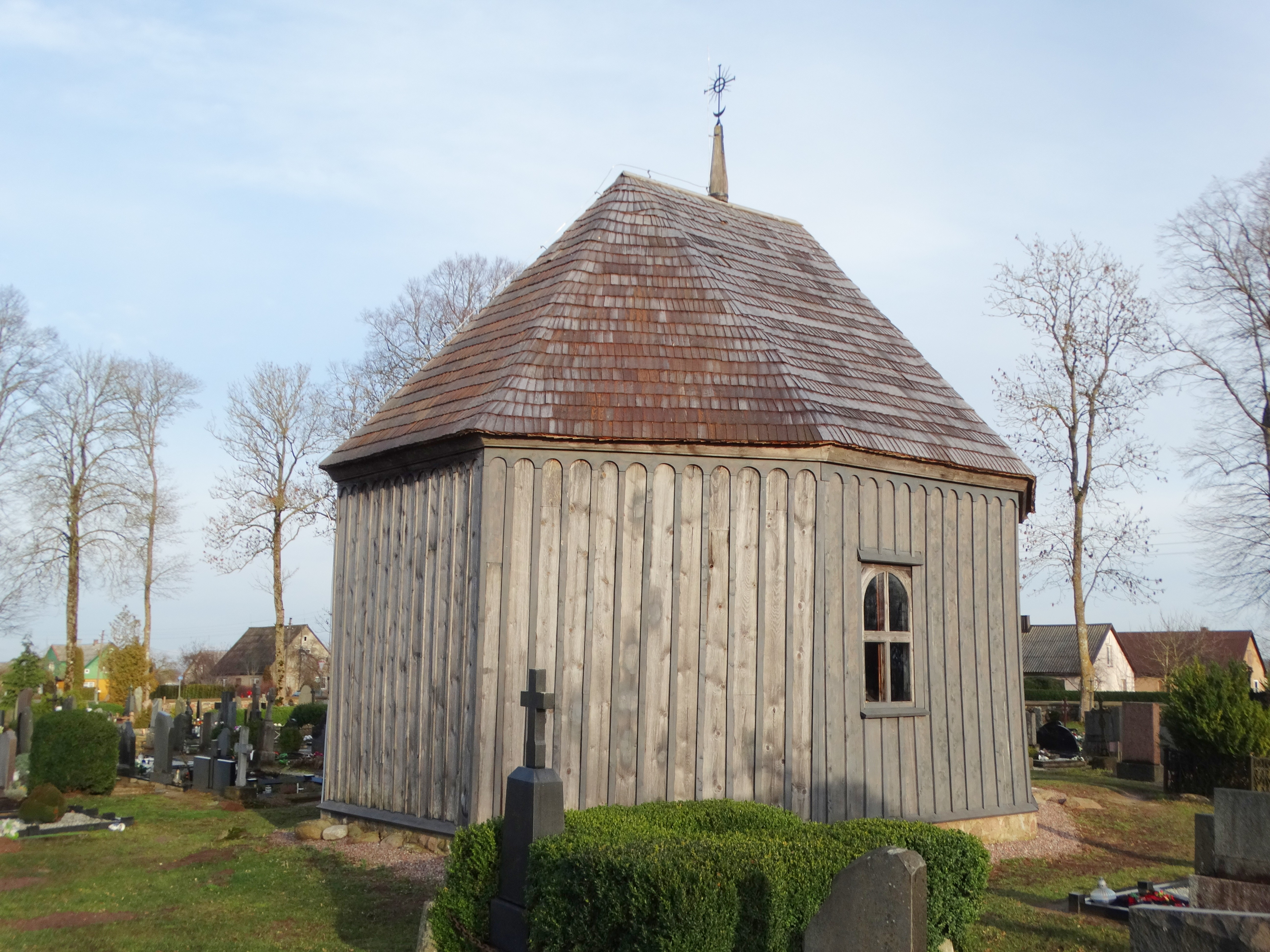 Grūšlaukė Cemetery Chapel, Kretinga, Lithuania